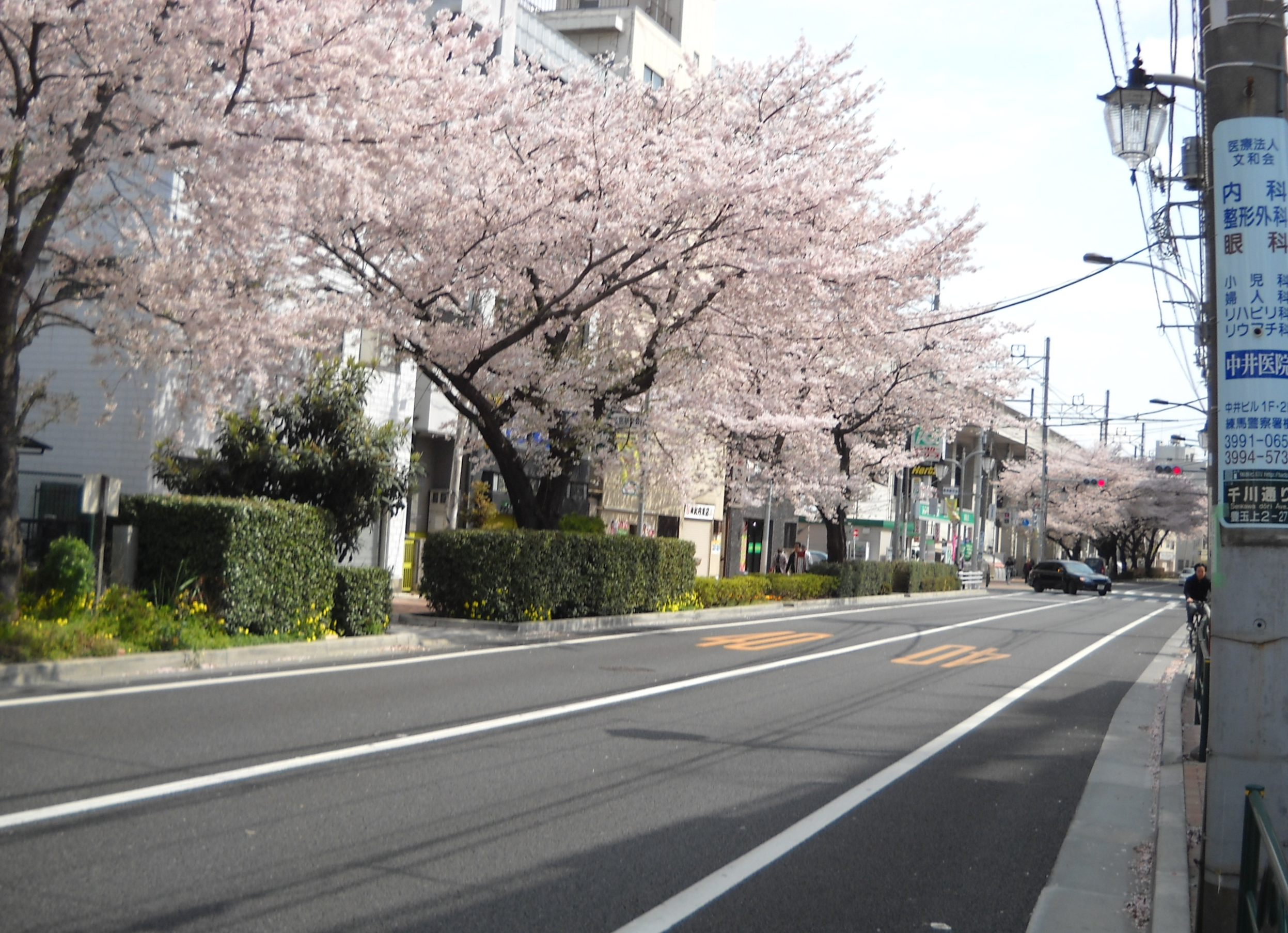 Senkawa dori ave., Nerima city, Tokyo, Japan